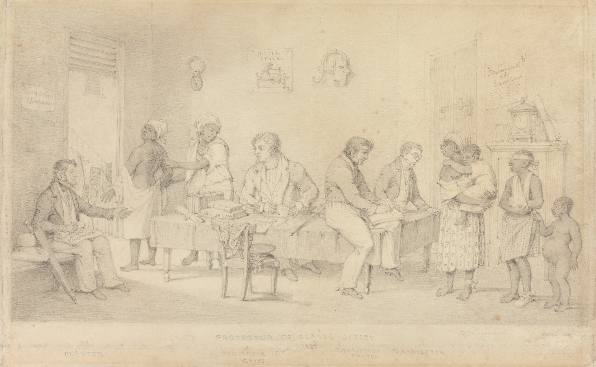 "Protector of Slaves Office (Trinidad)," by Richard Bridgens (active 1838), graphite on wove paper. 8 in x 12 3/4 in. (20.3 cm x 32.4 cm). Courtesy of the Paul Mellon Collection, Yale Center for British Art, Yale University, New Haven, Connecticut.